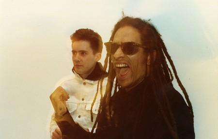 Dan Donovan and Don Letts of Big Audio Dynamite (Place: Santa Cruz, California, USA)